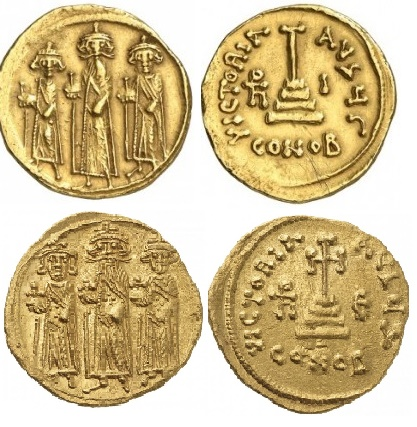 above: Umayyad arab-byzantine Solidus; most likely minted under the rign of caliph Muawiyah I. 661–680. below: Umayyad arab-byzantine coinage imitates a solidus of the byzantine emperor Heraclius 610–641